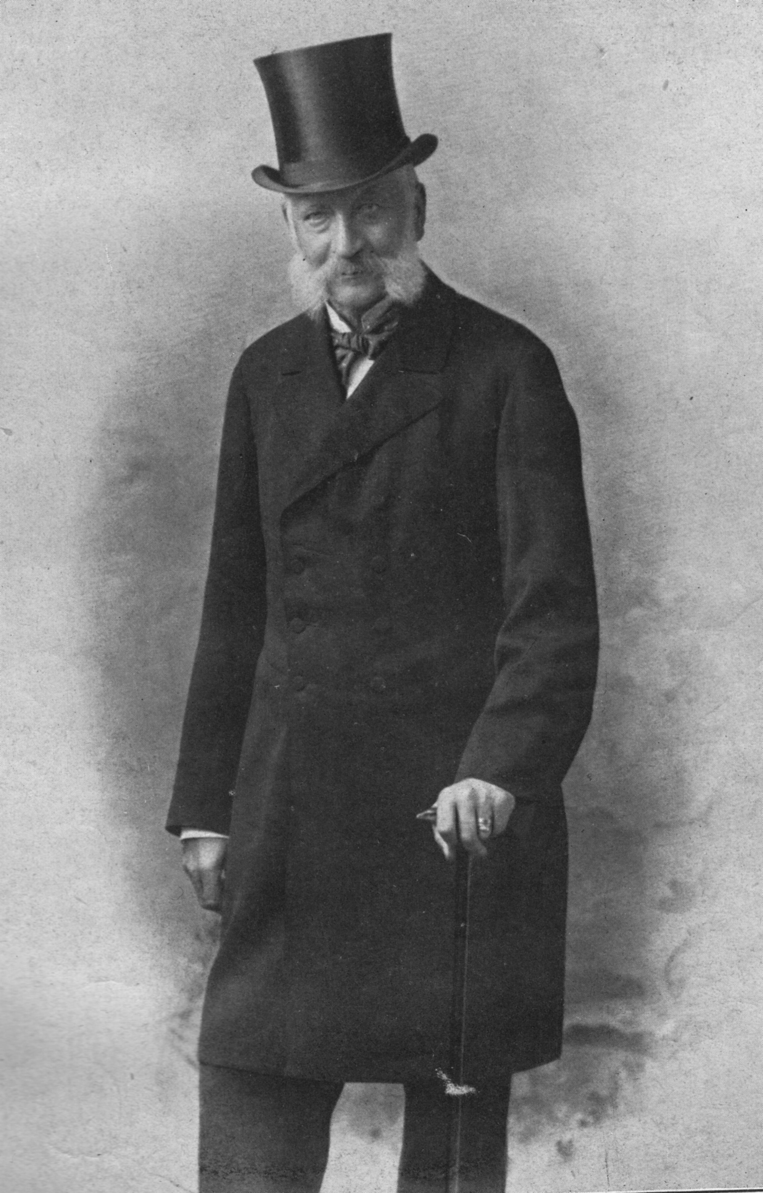 Joseph Alexander von Helfert